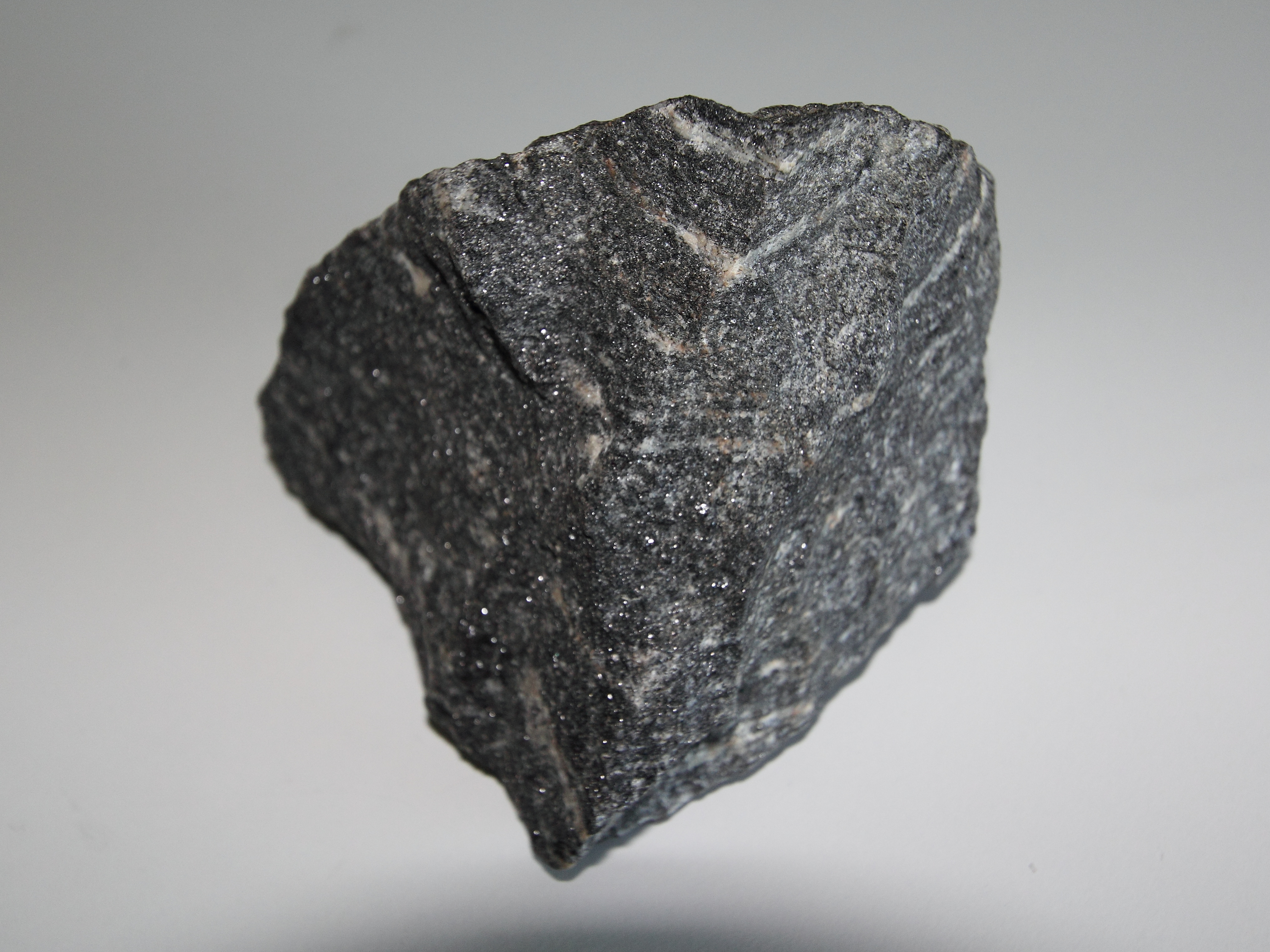 This gneiss is (among) the oldest known exposed rock on Earth (ca. 4.03 Ga). Collection: Prof. Hervé Martin (Université Blaise Pascal de Clermont-Ferrand).